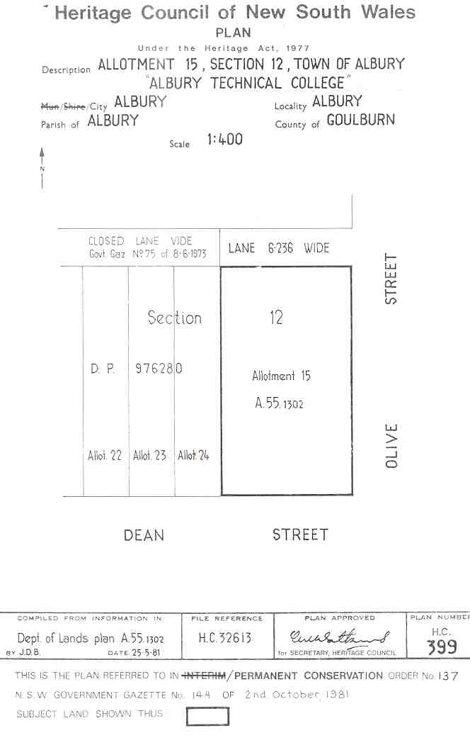 Albury Technical College: PCO Plan Number 137